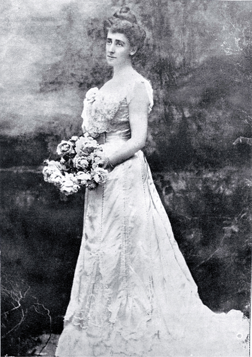 Rose Rhodes (née Moorhouse). Pictured in the year her husband, Arthur Edgar Gravenor Rhodes, became Mayor of Christchurch, Rose Rhodes was the niece of William Sefton Moorhouse and mother of Arthur Tahu Gravenor Rhodes.